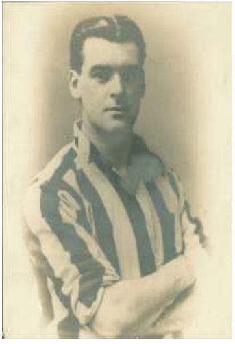 Charles F. Tyson pictured as a player for Southampton FC in approx. 1912